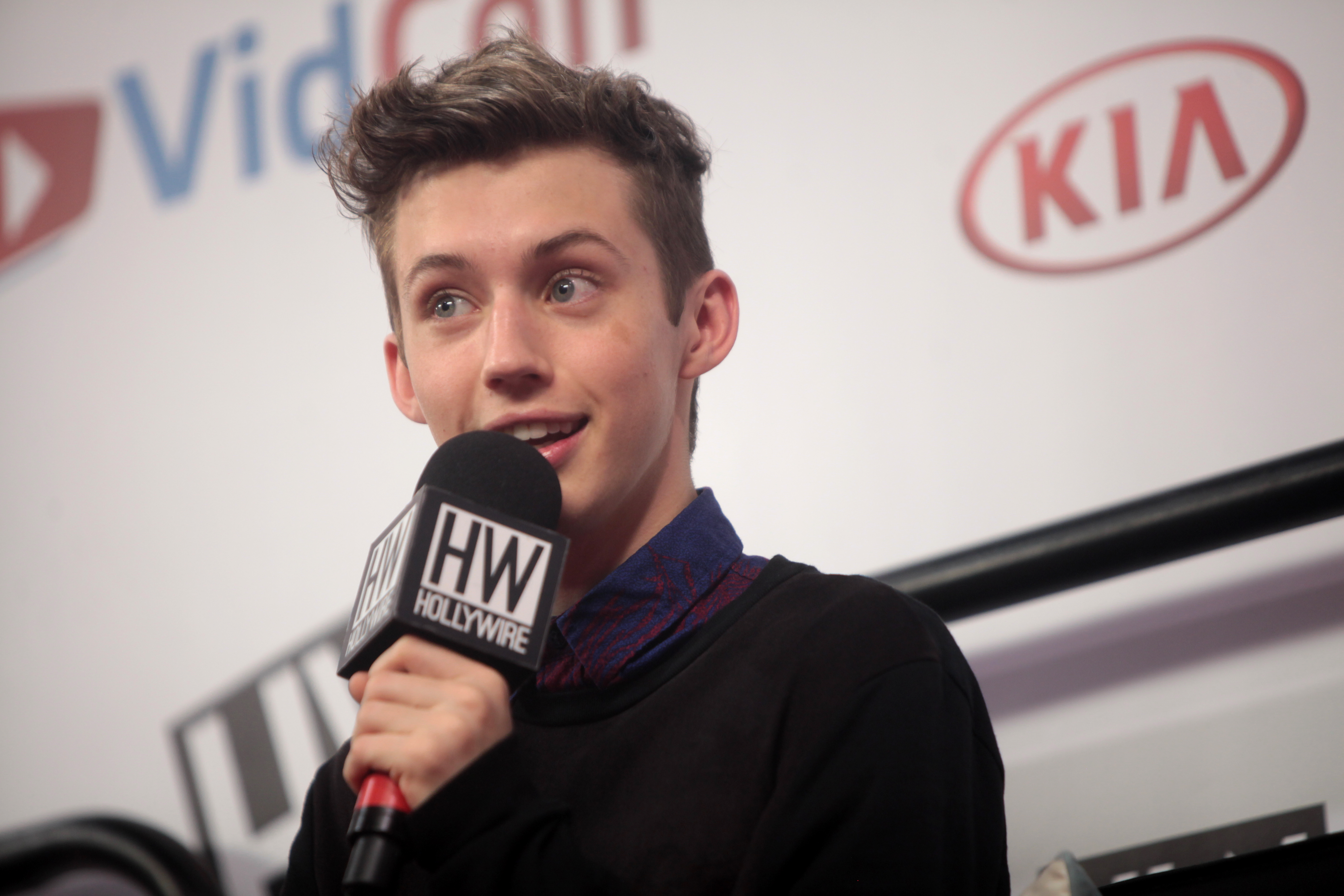 Troye Sivan speaking at the 2014 VidCon at the Anaheim Convention Center in Anaheim, California.